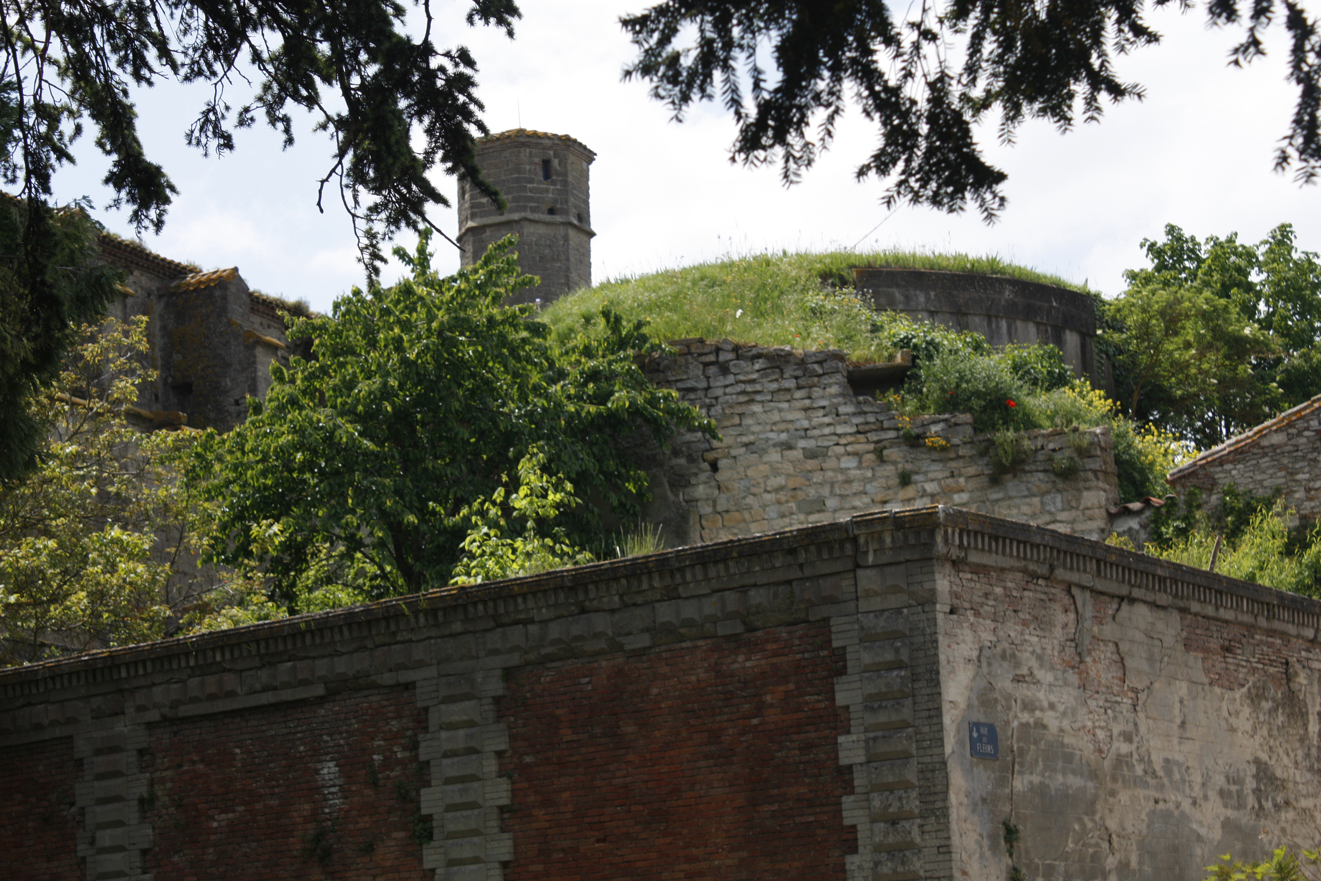 The signal turret is a blind tower built at the northwest corner of the collegiate church.